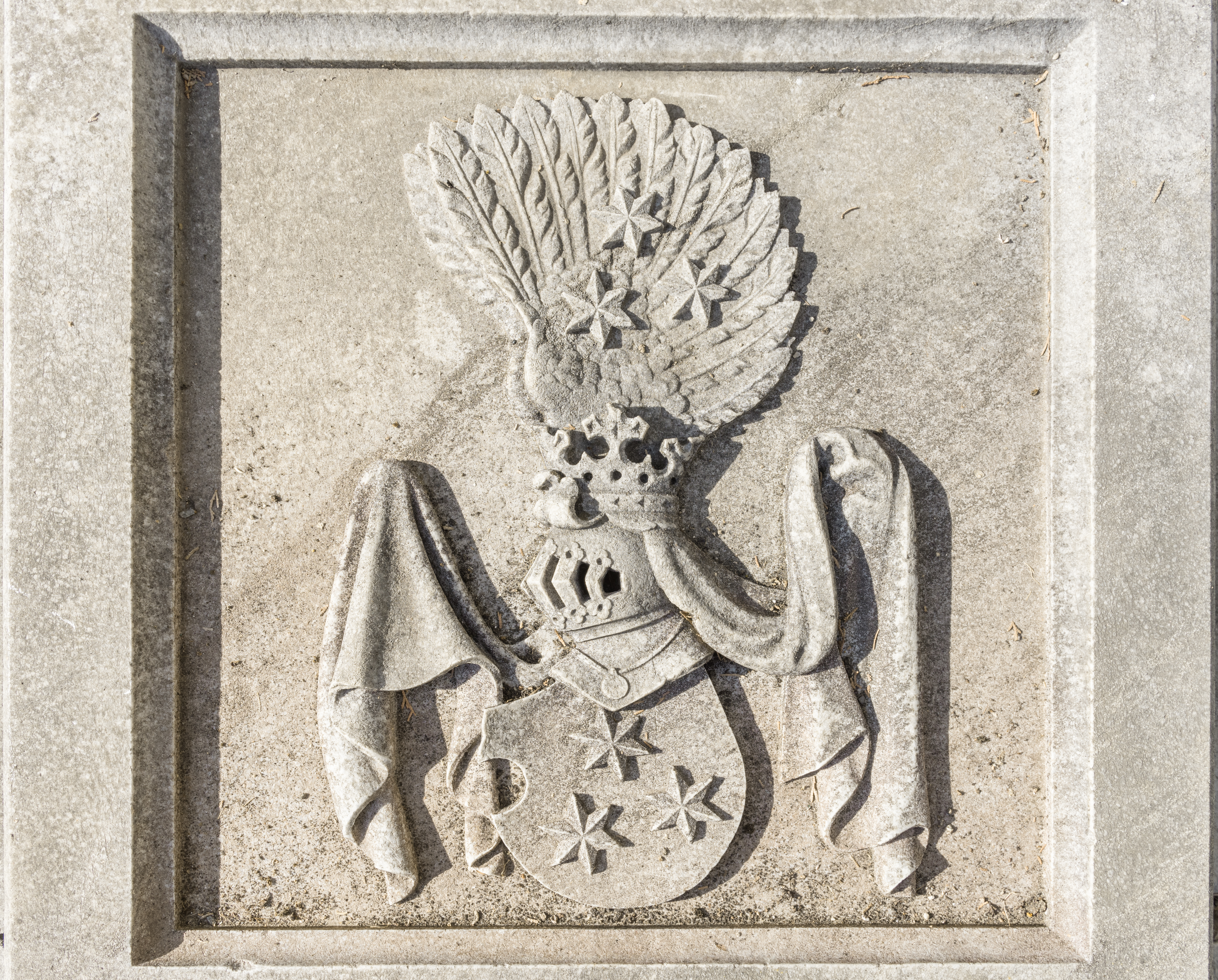 Relief of coat of arms at the tomb slab of the noble family von Sterneck at the cemetery of Sankt Georgen am Sandhof, 9th district Annabichl, municipality Klagenfurt on the Lake Woerth, Carinthia, Austria, EU